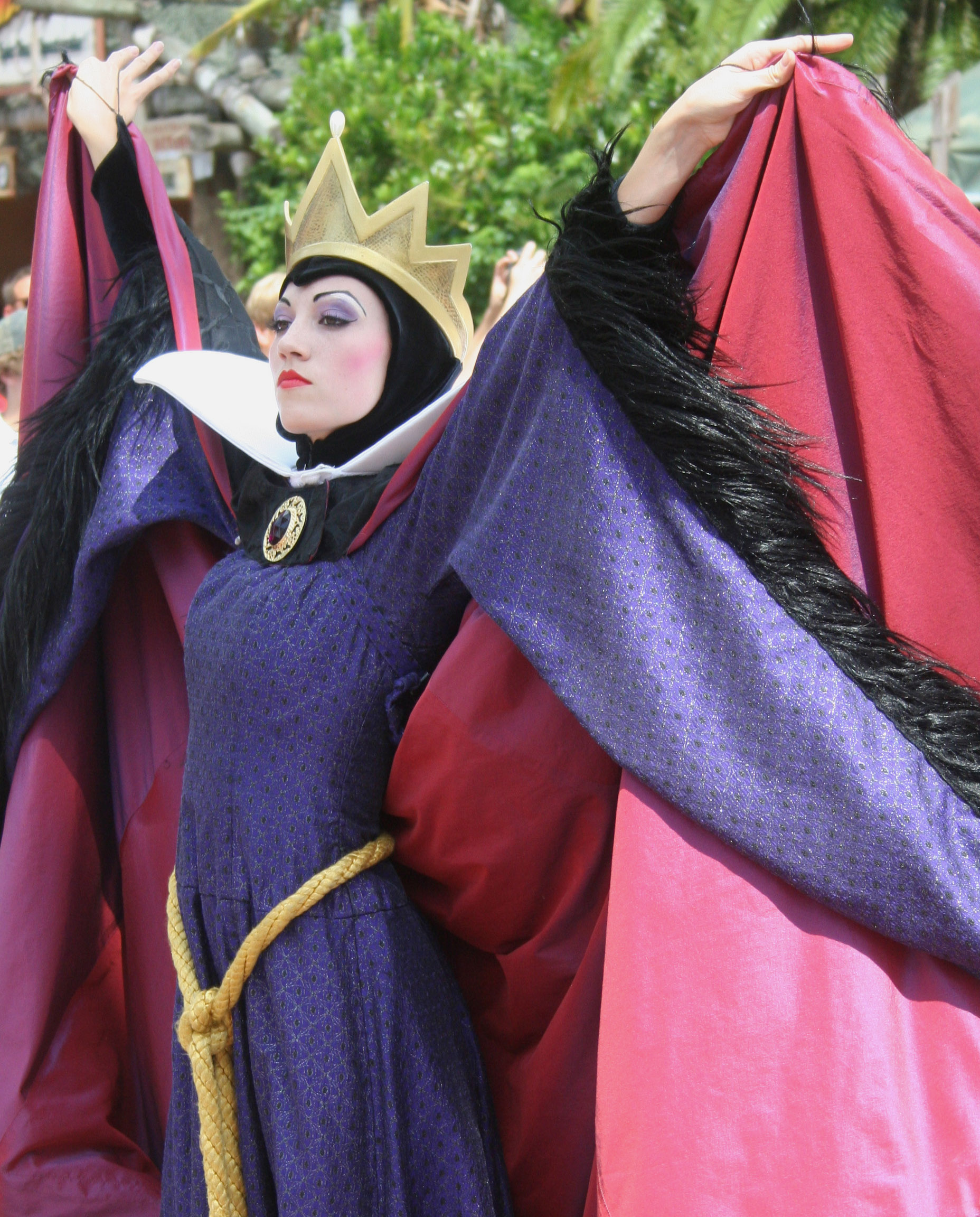 Evil Witch from "Snow White and the 7 Dwarfs"